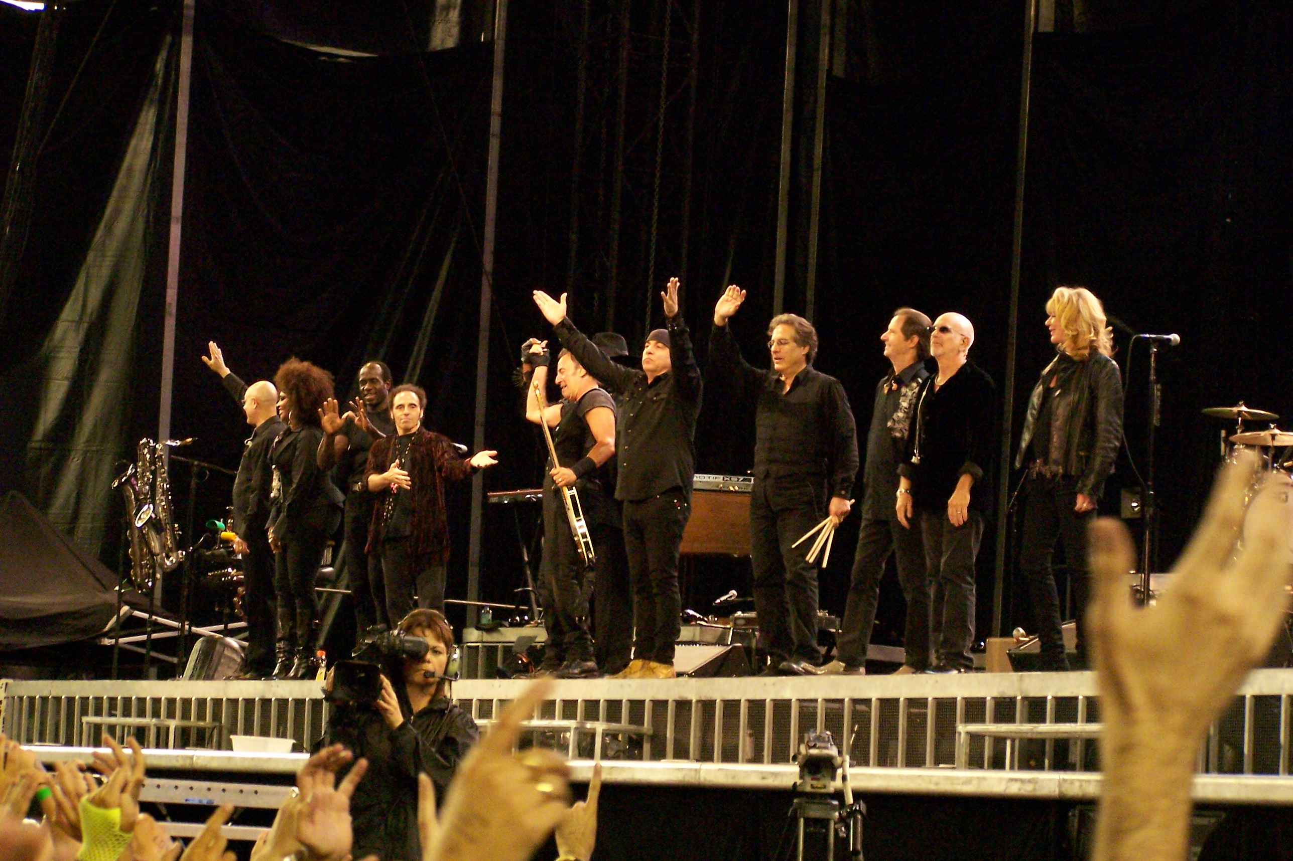 E Street Band, onstage during Bruce Springsteen's Working on a Dream Tour 2009, Valladolid, Spain.